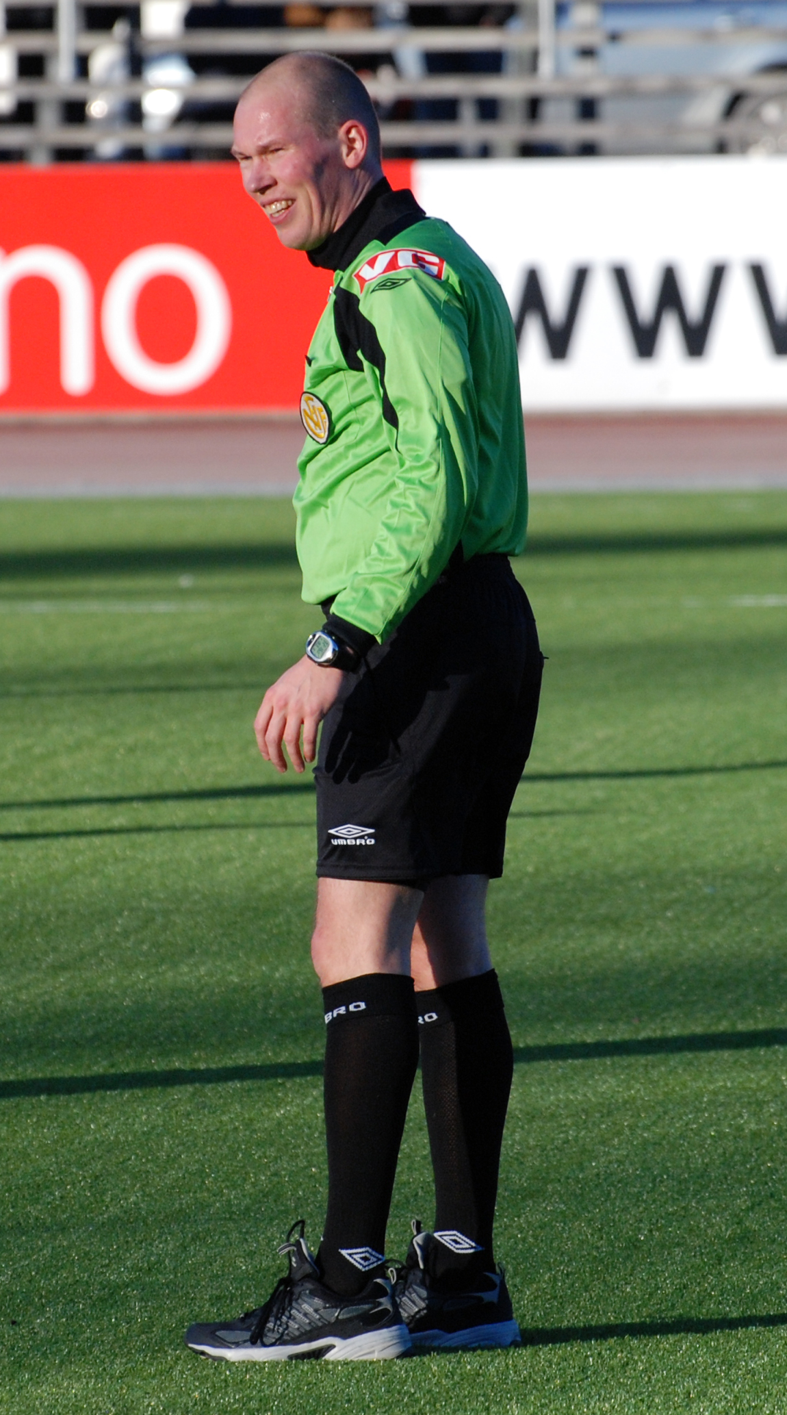 Kim Rune Borgersen, soccer referee, SBK Drafn